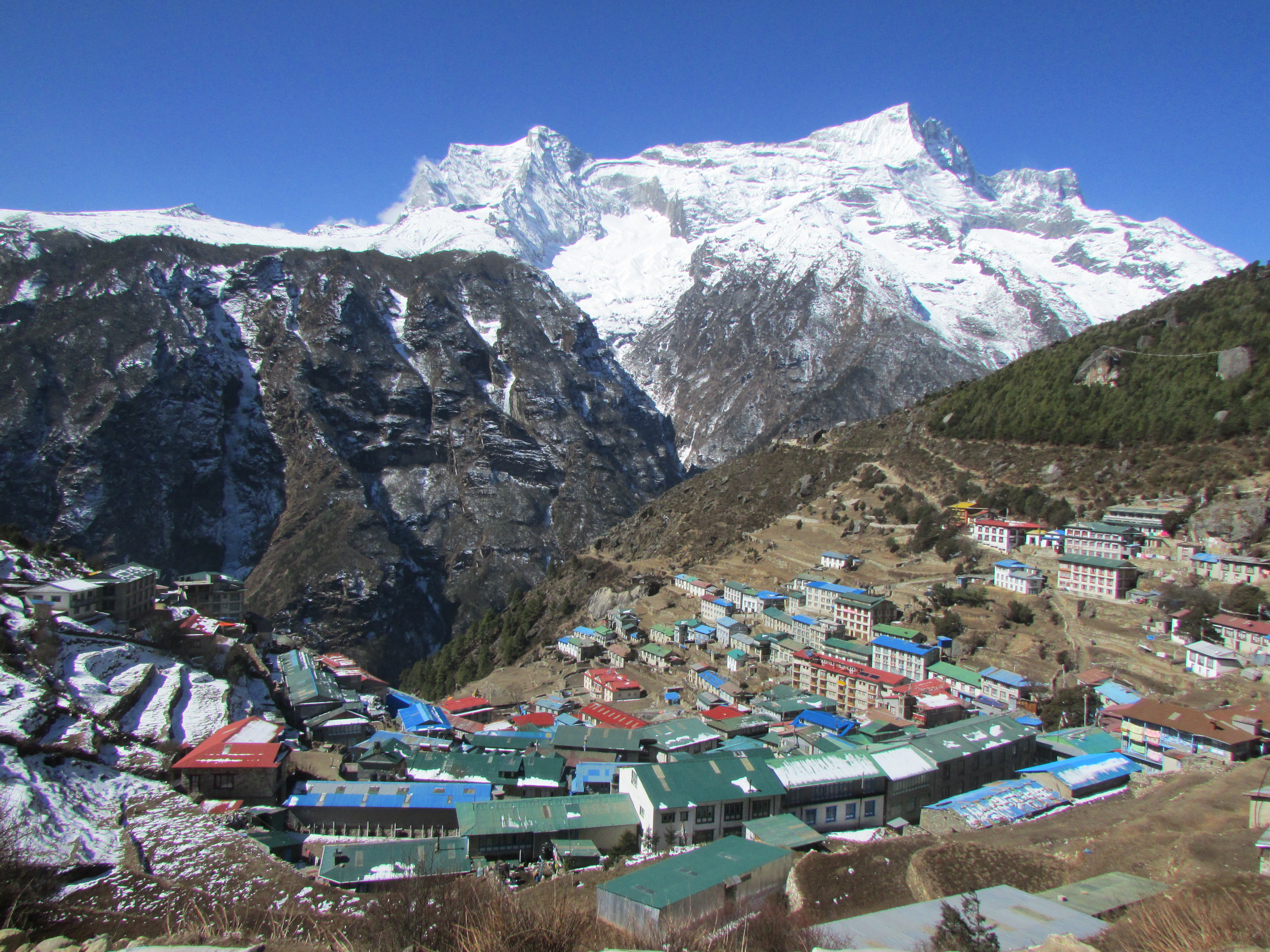 Namche bazar, gateway to Mt Everest, lies in Solukhumbu district of Nepal. The mountain seen in the background is Mt Kungde.